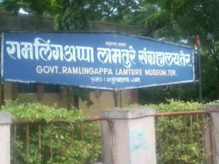 Ramalingappa Lamature Museum at Ter (District - Osmanabad) in Indian state Maharashtra